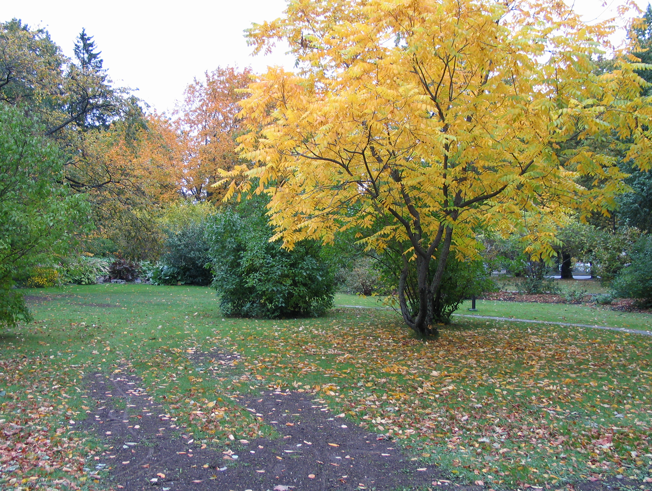 Skolparken ("The School Park") in Jakobstad, Finland